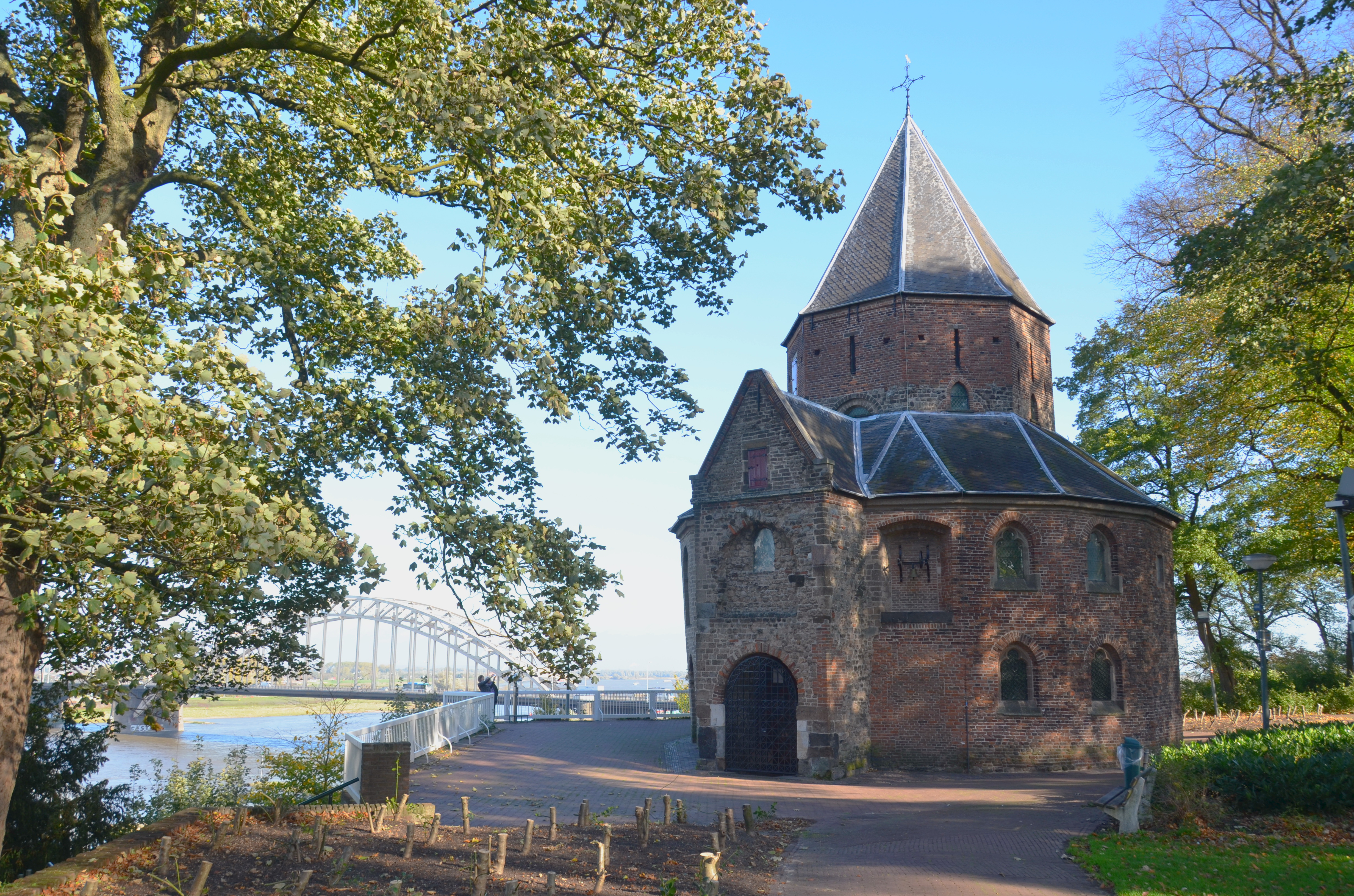 old chapel on a artificial hill (1154) from Barbarossa at Nijmegen. The Sint Nicolas chapel